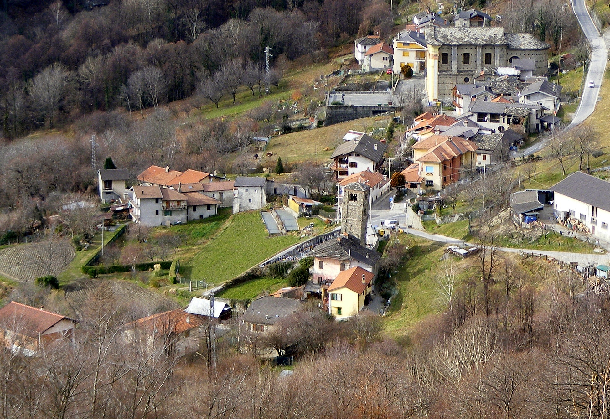 Mocchie (Condove, TO, Italy): panorama from Audani